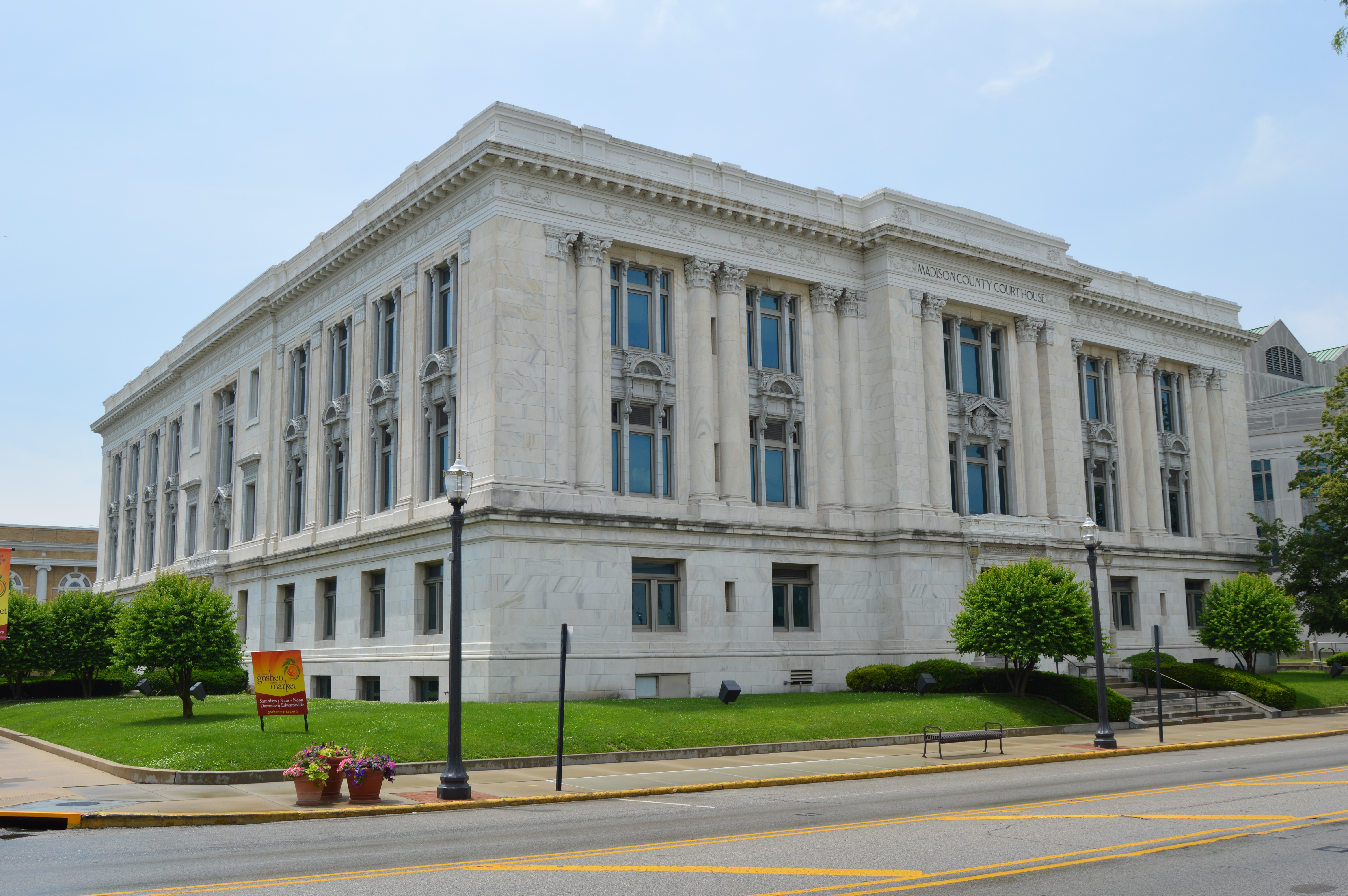 Front of the Madison County Courthouse, located at 155 N. Main Street in Edwardsville, Illinois, United States. It was built in 1913.